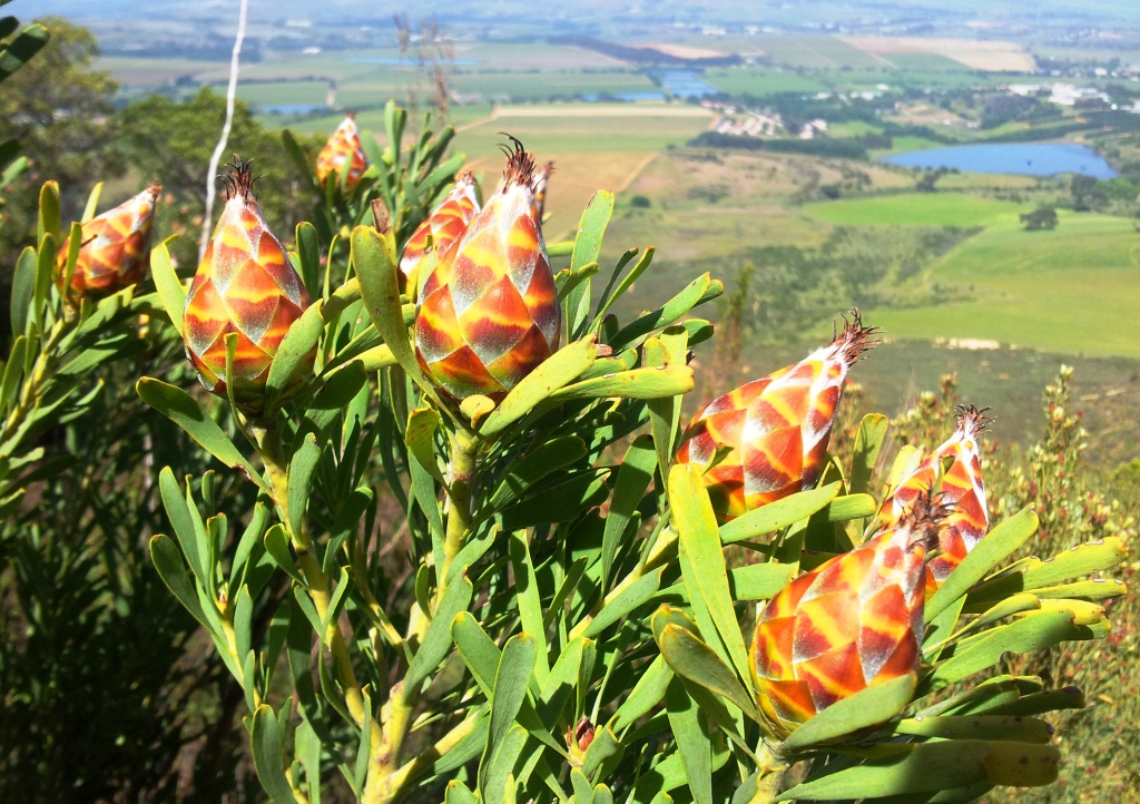 Conebush on Klapmutskop hill fynbos - Klapmuts - Stellenbosch